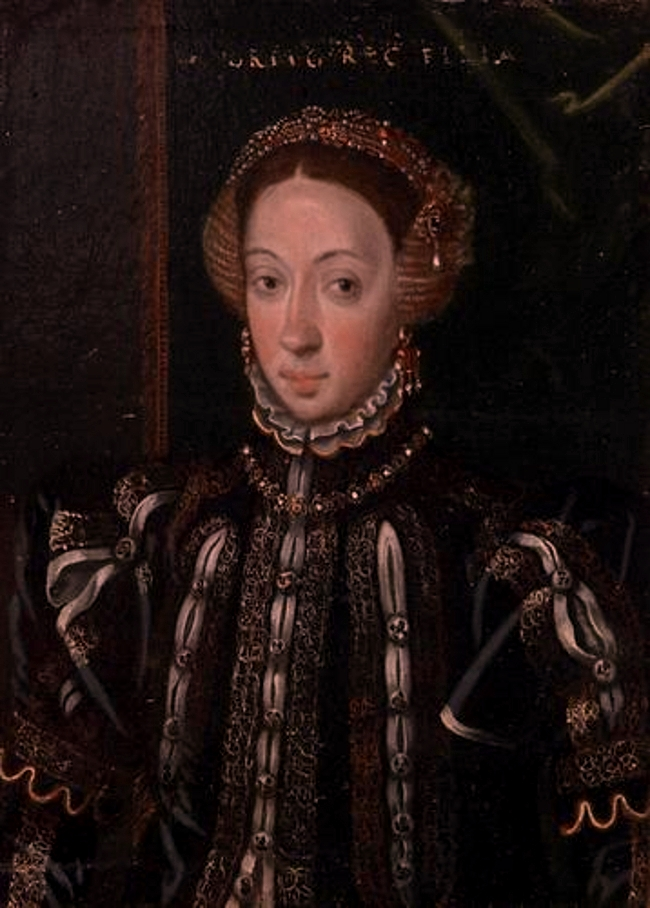 Maria of Portugal, Duchess of Viseu, not Maria of Aragon